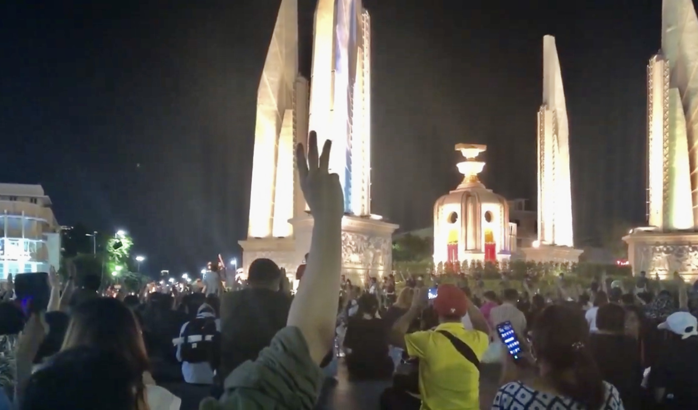 Protest in Bangkok July 18, 2020 showing three fingers against dictator